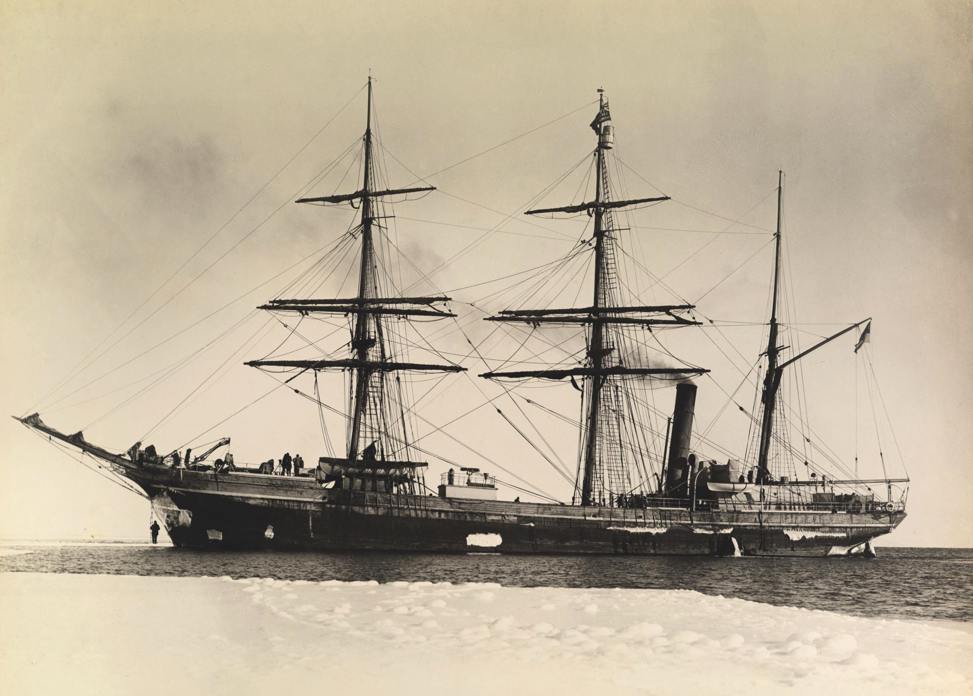 Expedition ship Terra Nova during the 1910 British Antarctic Expedition